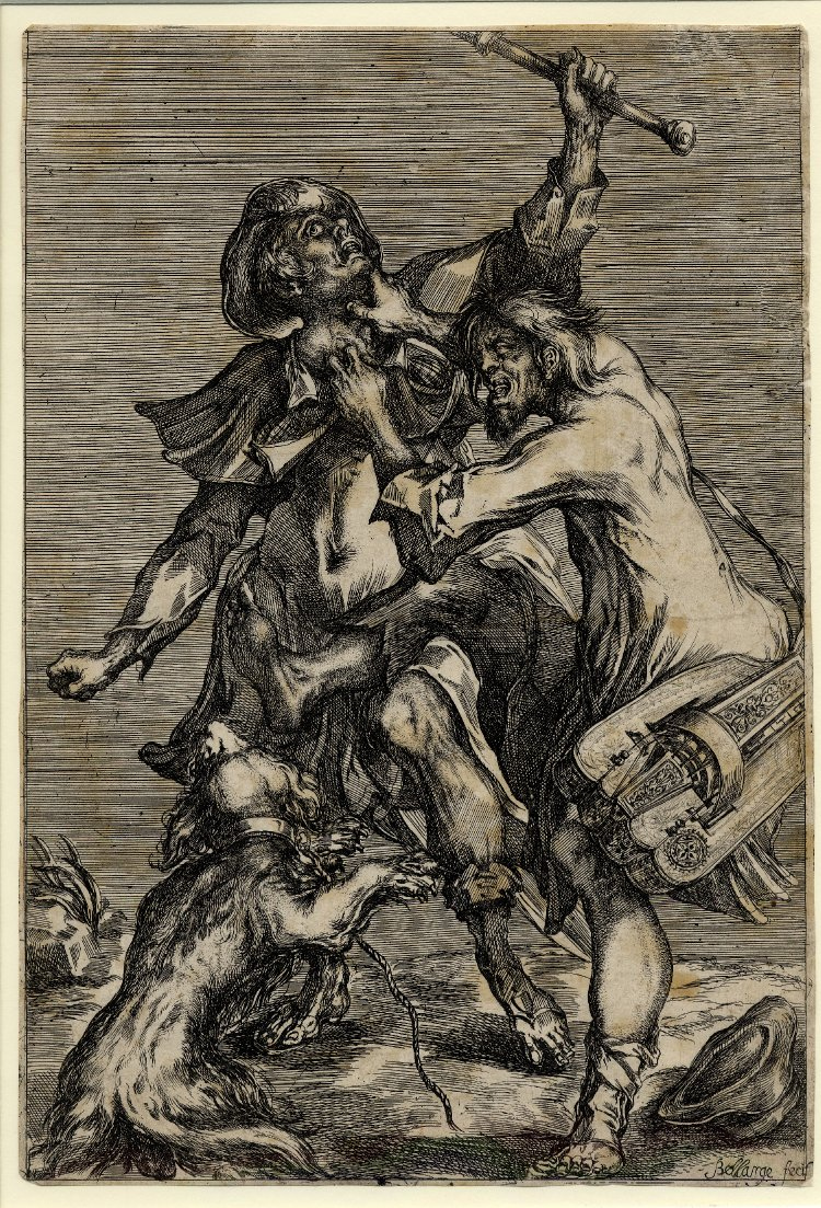 Hurdy-gurdy player attacking a pilgrim; the pilgrim, also attacked by a dog, is wearing the cockle-shell of St James. 1612/6, Etching with stipple, Inscription Content: Signed on plate Dimensions Height: 314 millimetres (trimmed) Width: 212 millimetres (trimmed)